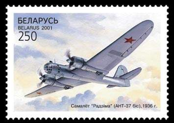 Stamp of Belarus